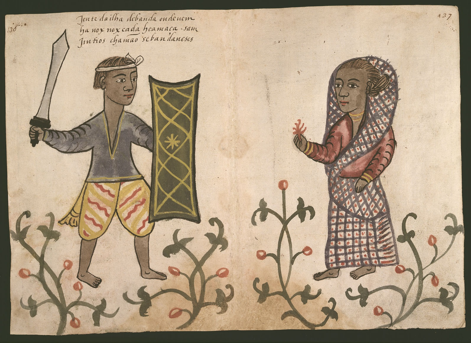 An anonymous 16th century Portuguese watercolour contained within the Códice Casanatense, depicting people of the island of Banda. The inscription reads: "People that inhabit the island of Banda from where the nutmeg and mace come from. they're gentiles called bandaneses.